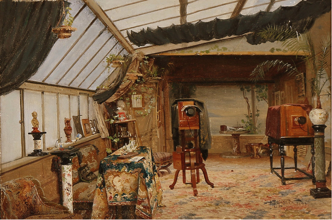 Interior of Sophus Juncker-Jensen's photographic studio at Frederiksberggade 21 in Copenhagen, Denmark. Oil on canvas. 22.5 x 33 cm. Auctioned at Bruun Rasmussen February 27, 2017.